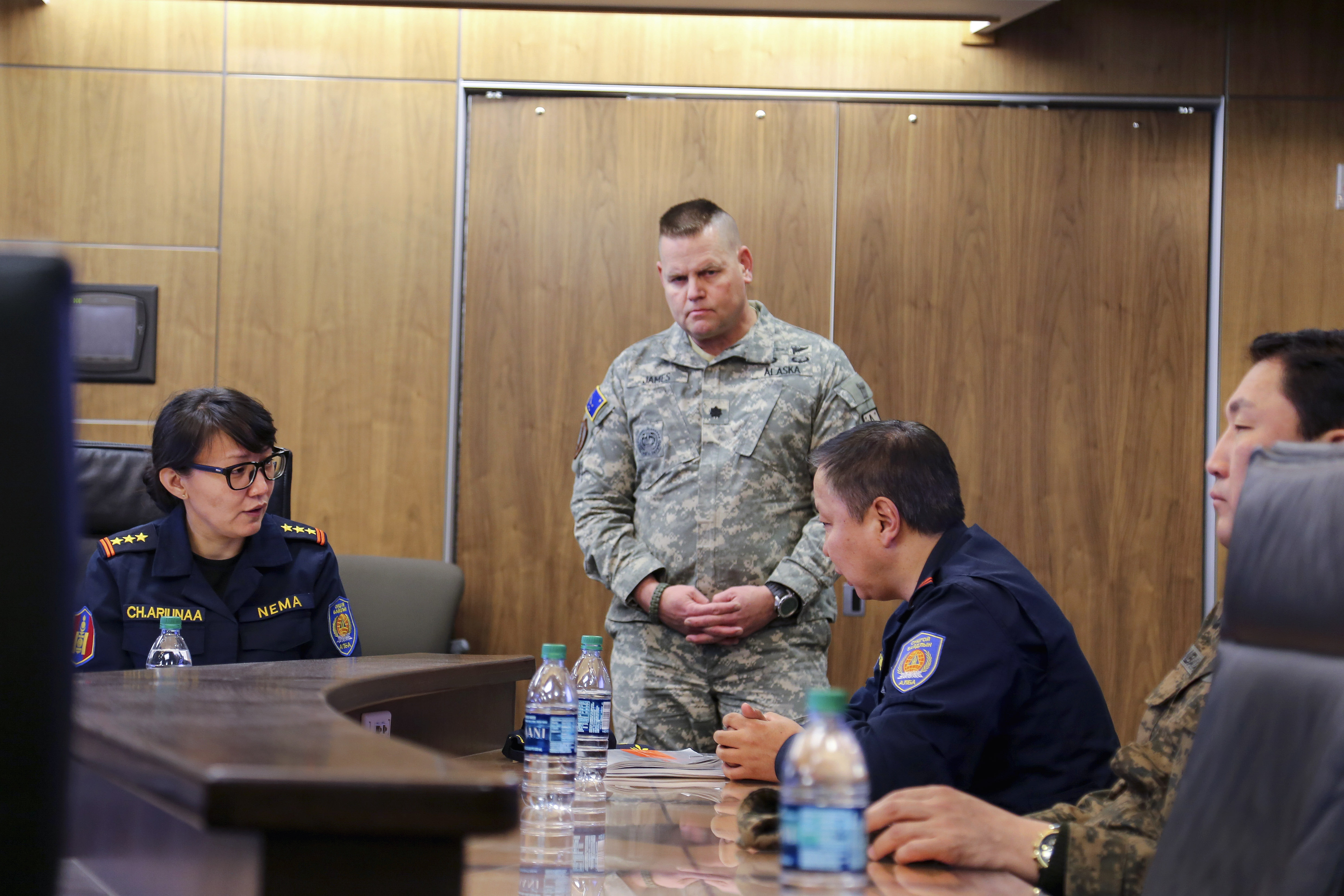 Alaska State Defense Force Lt. Col. (AK) John James, director of operations, answers questions from Col. Ariunaa Chadraabal, left, and Col. Ariunbuyan Gombojav, right, both members of the Mongolian National Emergency Management Agency, during a visit to the Alaska National Guard Armory on Joint Base Elmendorf-Richardson, April 1, 2016. Members of the Mongolian Ministry of Defense and Mongolian NEMA observed the Department of Military and Veterans Affairs participation in Alaska Shield 2016. (U.S. Army National Guard photo by Staff Sgt. Balinda O’Neal Dresel)